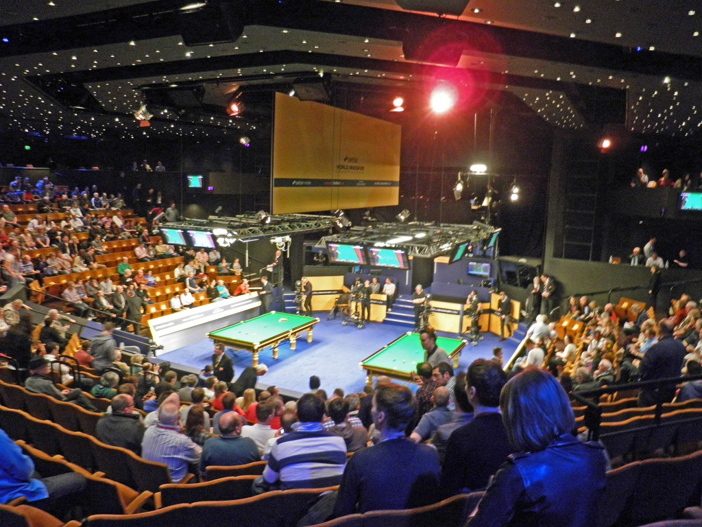 2013 day 1 session 3 of the World Snooker Championship Sheffield Saturday 20th April (today) saw the start of the World Snooker championships.